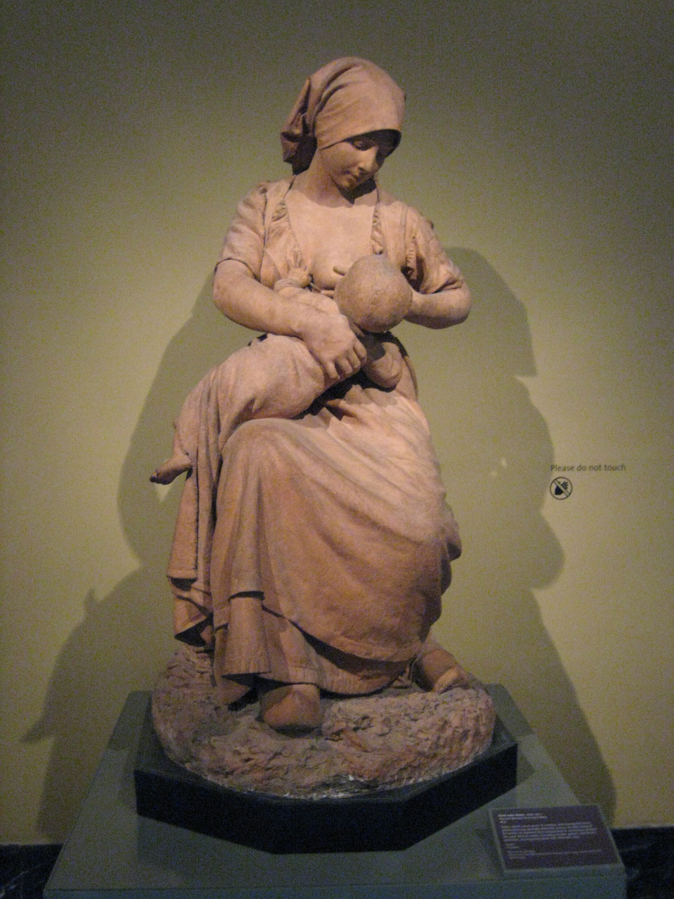 Peasant Woman Nursing a Baby Jules Dalou (1838–1902) Alternative names Jules Dalou; Aimé-Jules DalouDescriptionFrench sculptorDate of birth/death 31 December 1838 15 April 1902Location of birth/death Paris ParisAuthority control : Q551648 VIAF: 76588662 ISNI: 0000 0000 6664 2752 ULAN: 500115274 LCCN: n88633508 WGA: DALOU, Jules WorldCat creator QS:P170,Q551648 1873 Dalou spent seven years in London, and during this time produced many intimate domestic scenes. As with many of his works, he explored this cosmopolitan in numerous versions. He used various media, including marble, plasters and Sevres porcelain, and experimented with different sizes. Presented to the Tate Gallery by A. Thomas Loyd in 1924; transferred to the V&A in 1969. Collection ID: A.8-1993 This photo was taken as part of Britain Loves Wikipedia in February 2010 by Alison Bean.